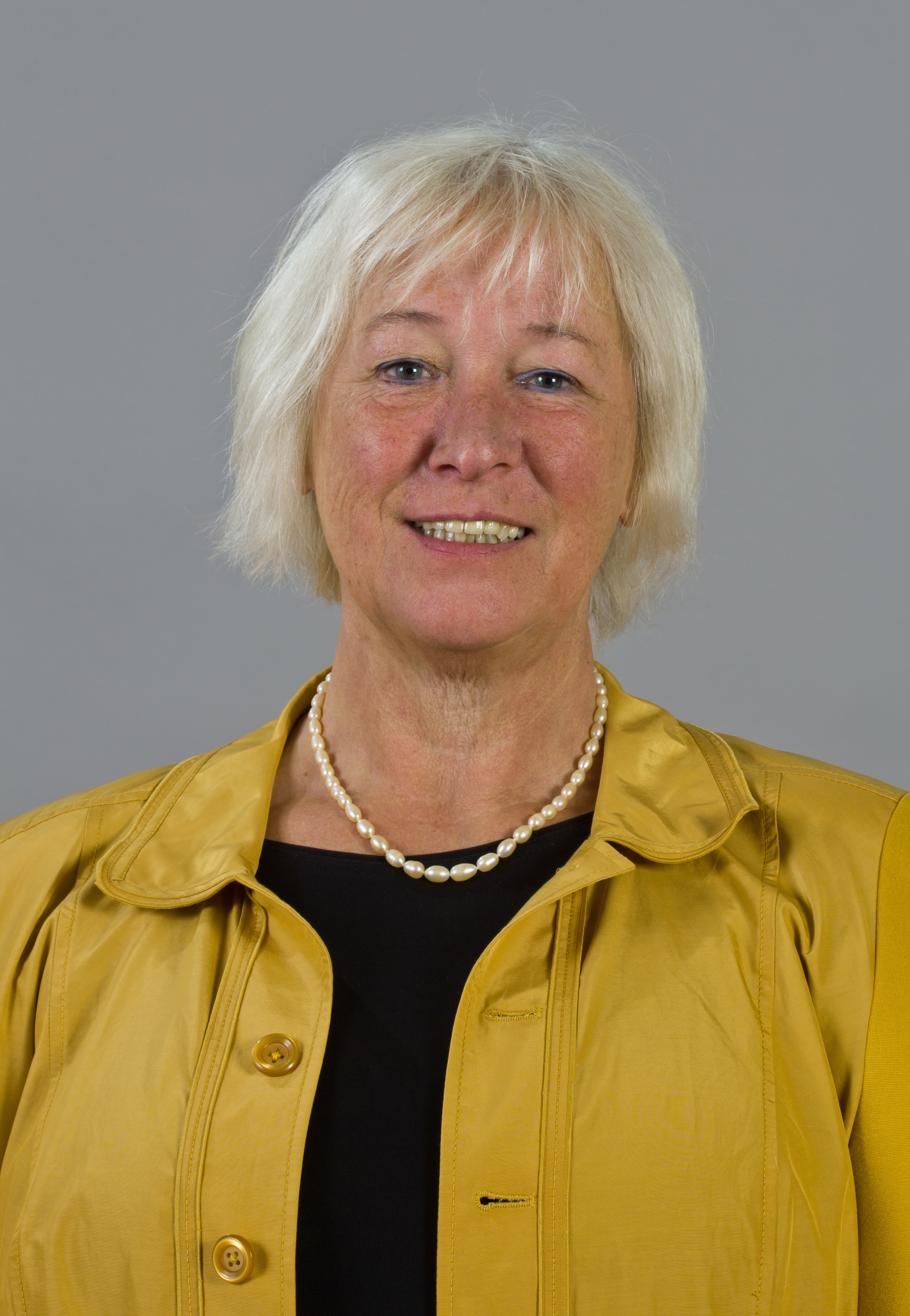 Heidi Kosche, politician from Germany, member of Abgeordnetenhaus of Berlin (as of 2013)